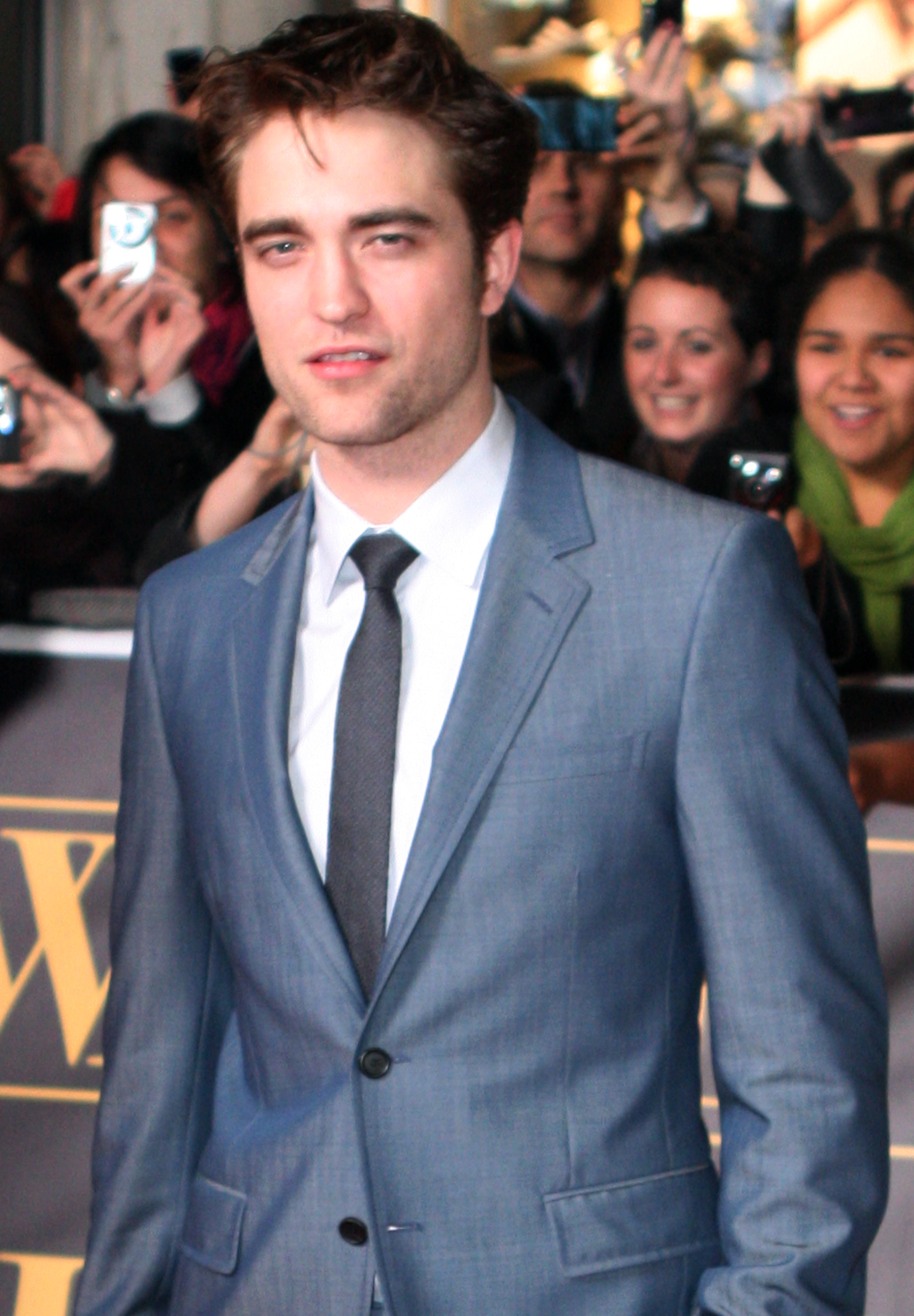 Robert Pattinson at the premiere for Water for Elephants in May 2011.